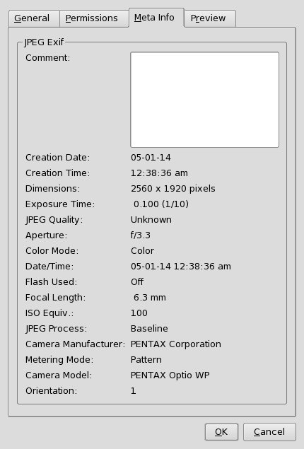 This is a demonstration screenshot of free software. Whatever claim to ownership I have I donate to the public domain. For Exchangeable image file format.